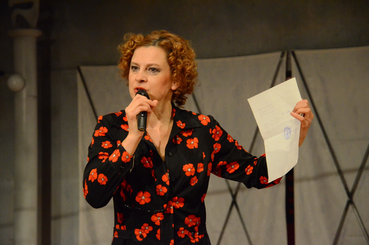 “Zoyka's Apartment", a Tragic Farce in three acts written by Mikhail Bulgakov; directed by Dejan Mijač, Drama of the Serbian National Theatre, Novi Sad, 2010/2011; Jasna Đuričić Srpski (latinica): "Zojkin stan", tragedija u tri čina Mihajla Bulgakova u režiji Dejana Mijača, Drama Srpskog narodnog pozorišta, Novi Sad, 2010-2011; Jasna Đuričić Српски (ћирилица): "Зојкин стан", трагедија у три чина Михајла Булгакова у режији Дејана Мијача, Драма Српског народног позоришта, Нови Сад, 2010-2011; Јасна Ђуричић